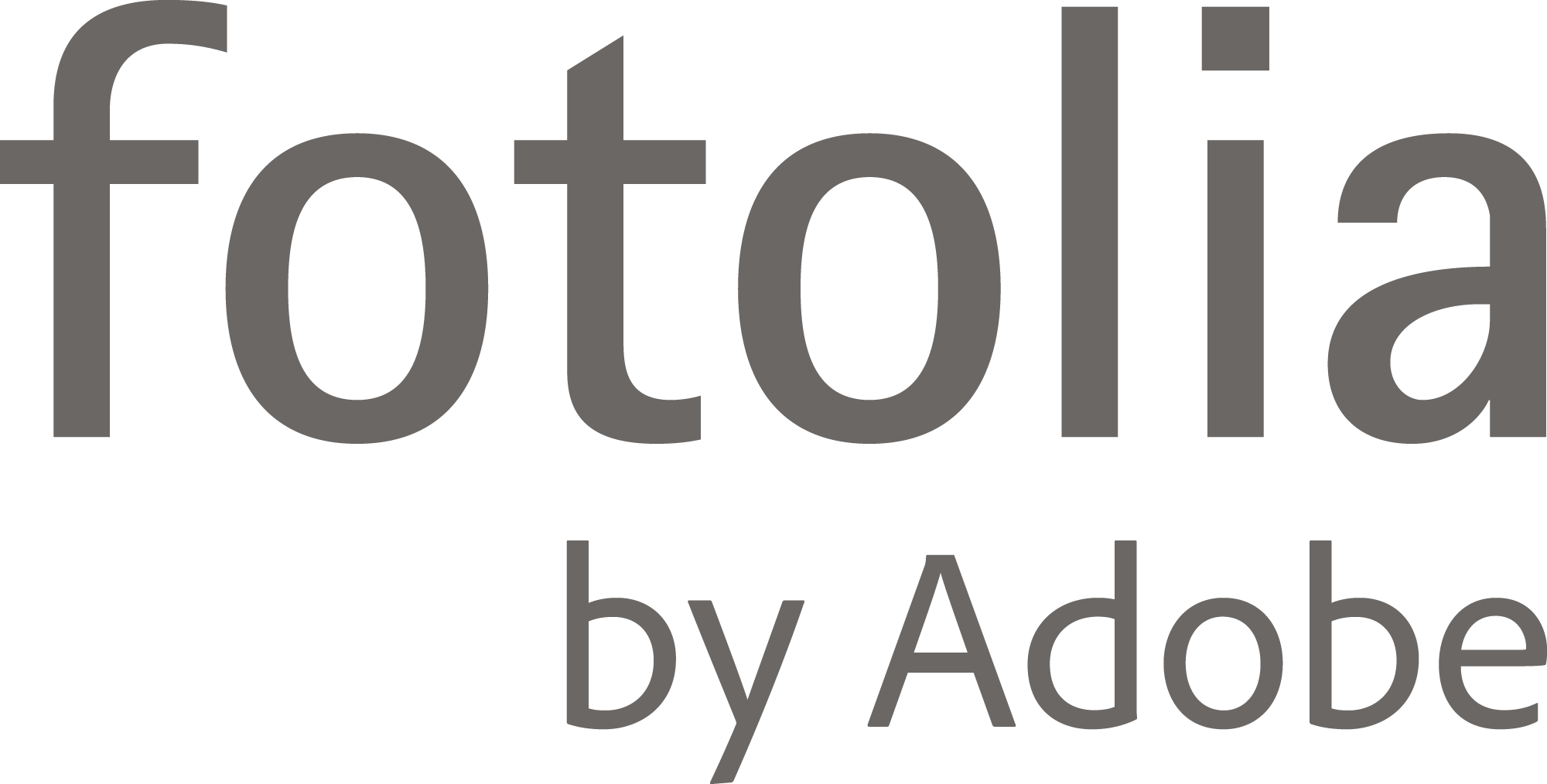 Fotolia by Adobe logo